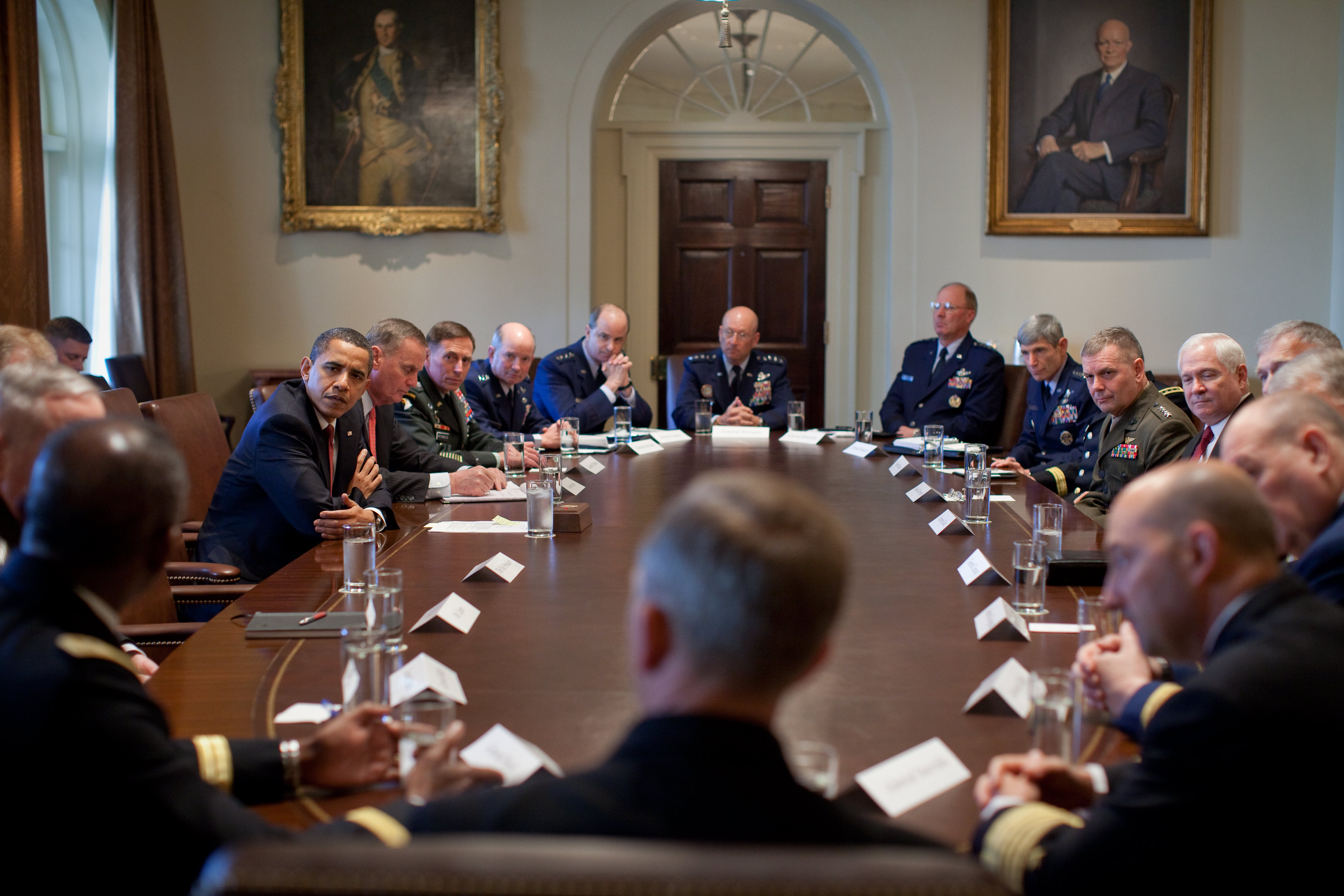 President Obama (with his national security advisor James L. Jones and secretary of Defence Robert Gates) meets with Combatant Commanders in the Cabinet Room, 3/24/09. On the background, the door to the Presidential secretary office and the portraits of Washington and Eisenhower (already there during George W. Bush presidency, the Eisenhower portrait will be remove few days after). Official White House Photo by Pete Souza.